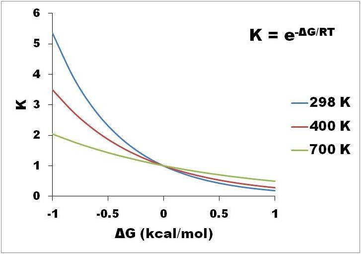 Example of equilibrium distribution between two conformers given the free energy of interconversion between them.